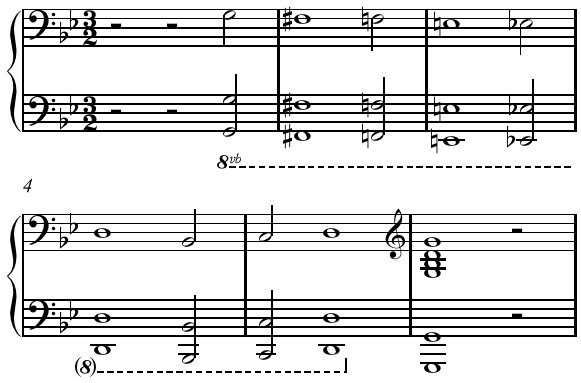 Dido's Lament ground bass, m. 1-6. See: File:Dido's_Lament_ground_bass.mid